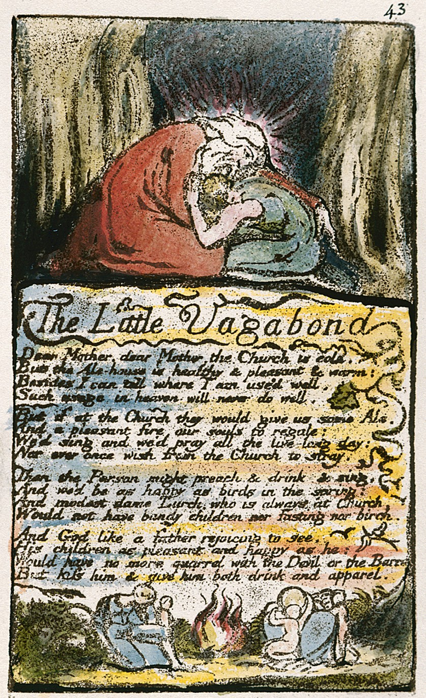 Songs of Innocence and of Experience, copy L, 1795 (Yale Center for British Art) object 43-45 The Little Vagabond